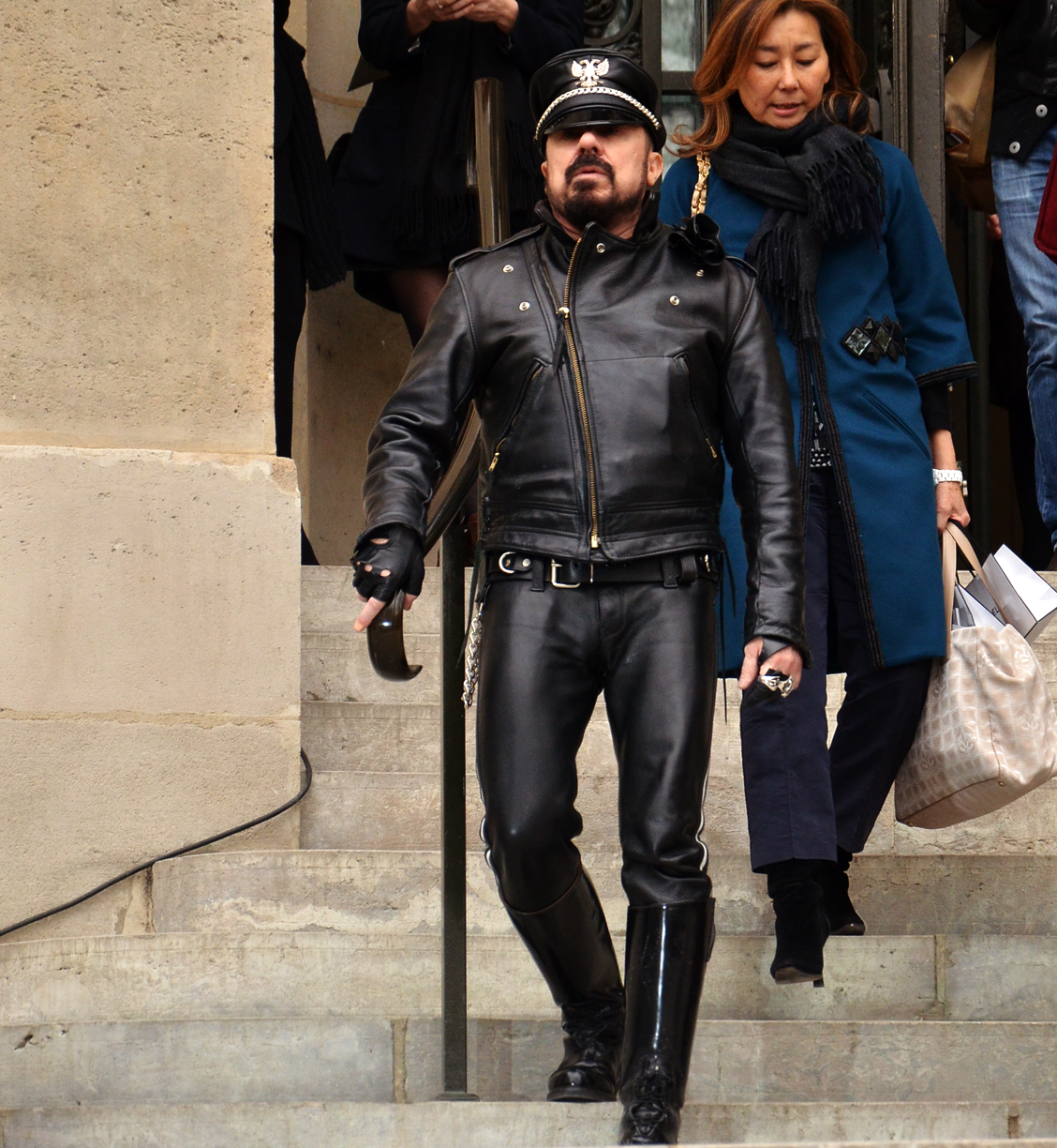 Architect Peter Marino